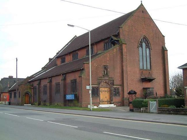 All Saints Church, Joiners Square Church. 1910-13, by Gerald Horsley. Gothic Revival style. Red brick, with ashlar dressings and plain tile roof with coped gables. Chancel with organ chamber, north chapel and vestry, nave with arcades and clerestory, north aisle. Windows are mainly pointed arched lancets with stone mullions